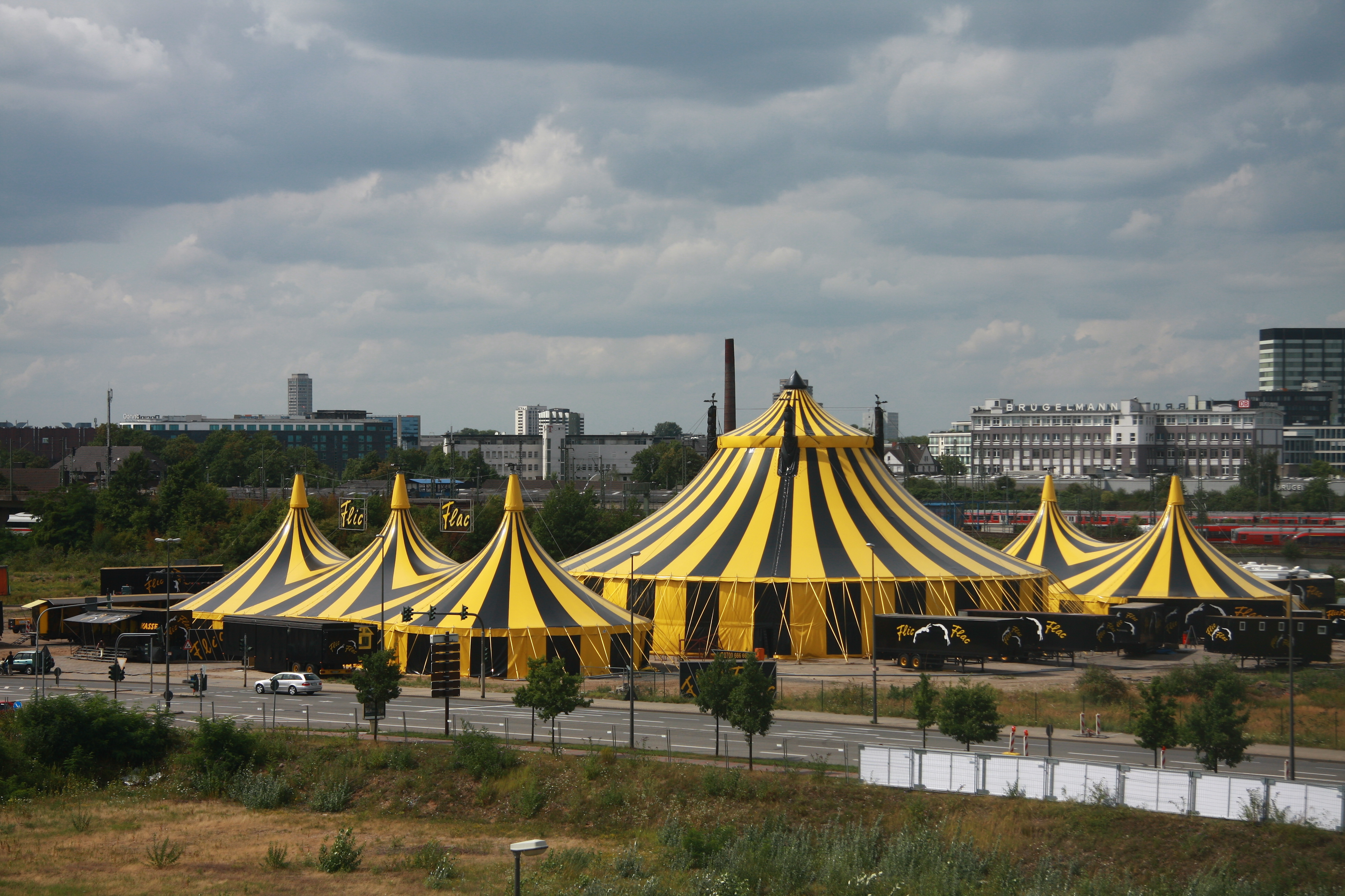 Circus Flic Flac in Köln-Kalk